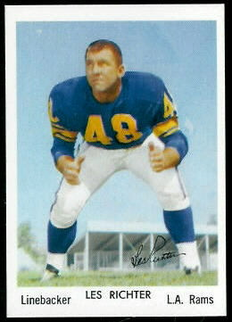 A 1959 promotional image of Los Angeles Rams player Les Richter.